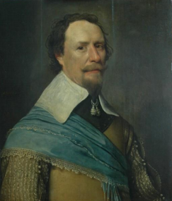 Willem Pijnssen (1567 - 1637), colonel in the Dutch army and governor of Rees